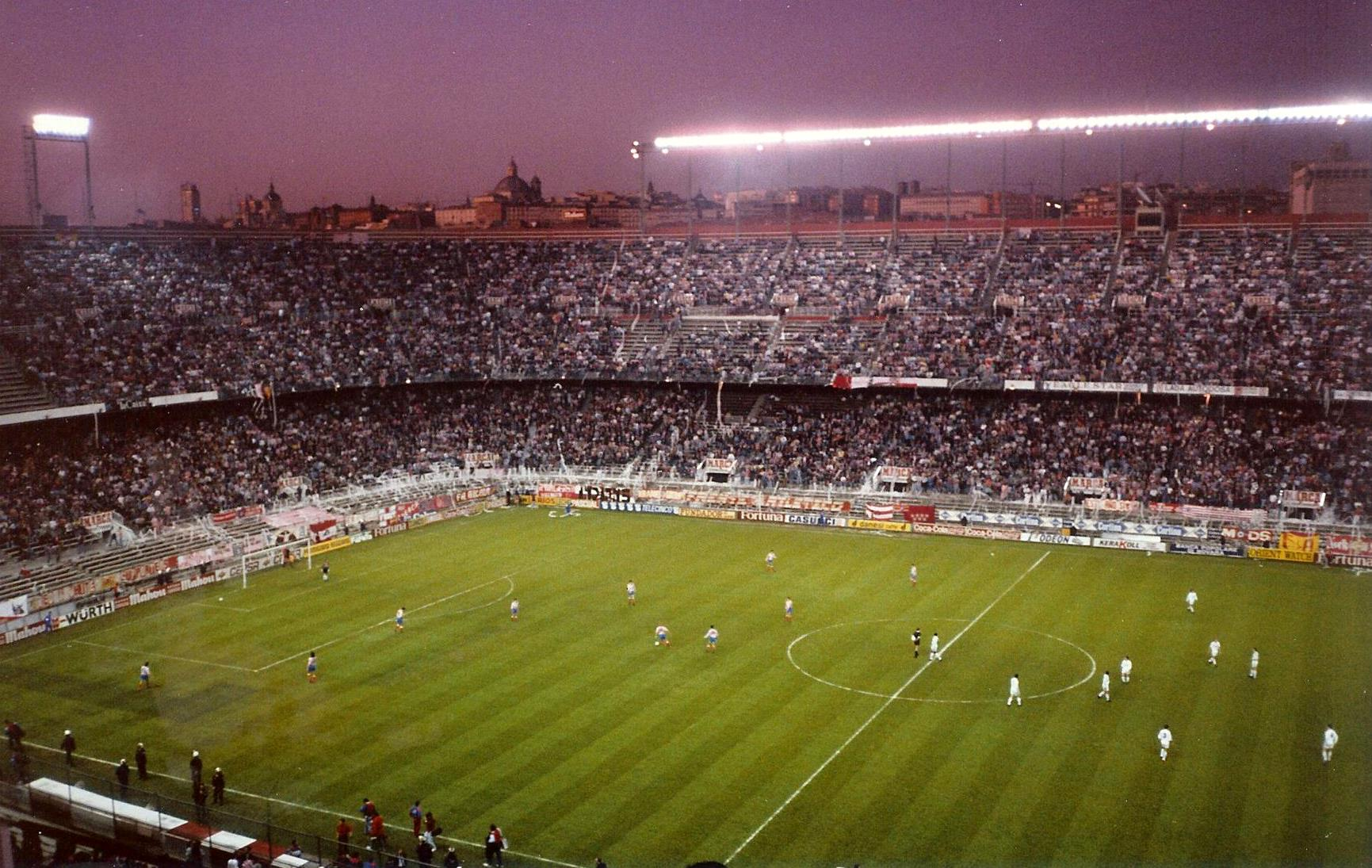 Atletico Madrid vs Parma, at Vicente Calderón Stadium